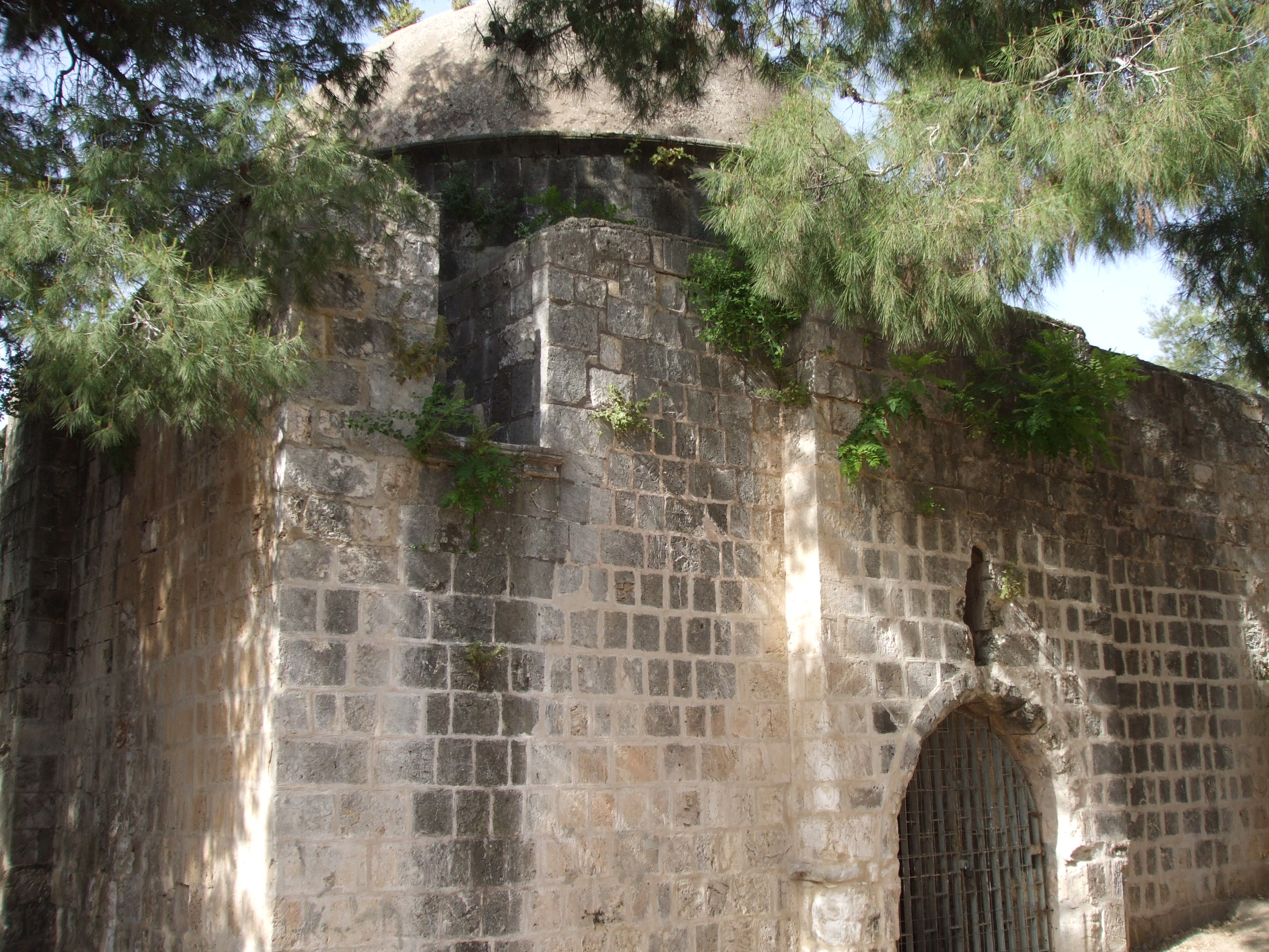 Turbat Kameria in Jerusalem, Israel, in a garden in Strauss St.